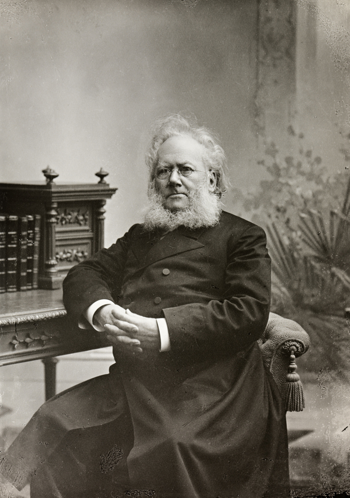 Dato / Date: 1898 Fotograf / Photographer: Daniel Georg Nyblin (1826-1910) Eier / Owner Institution: Nasjonalbiblioteket / National Library of Norway Lenke / Link: Bildesignatur / Image Number: bldsa_ib0061